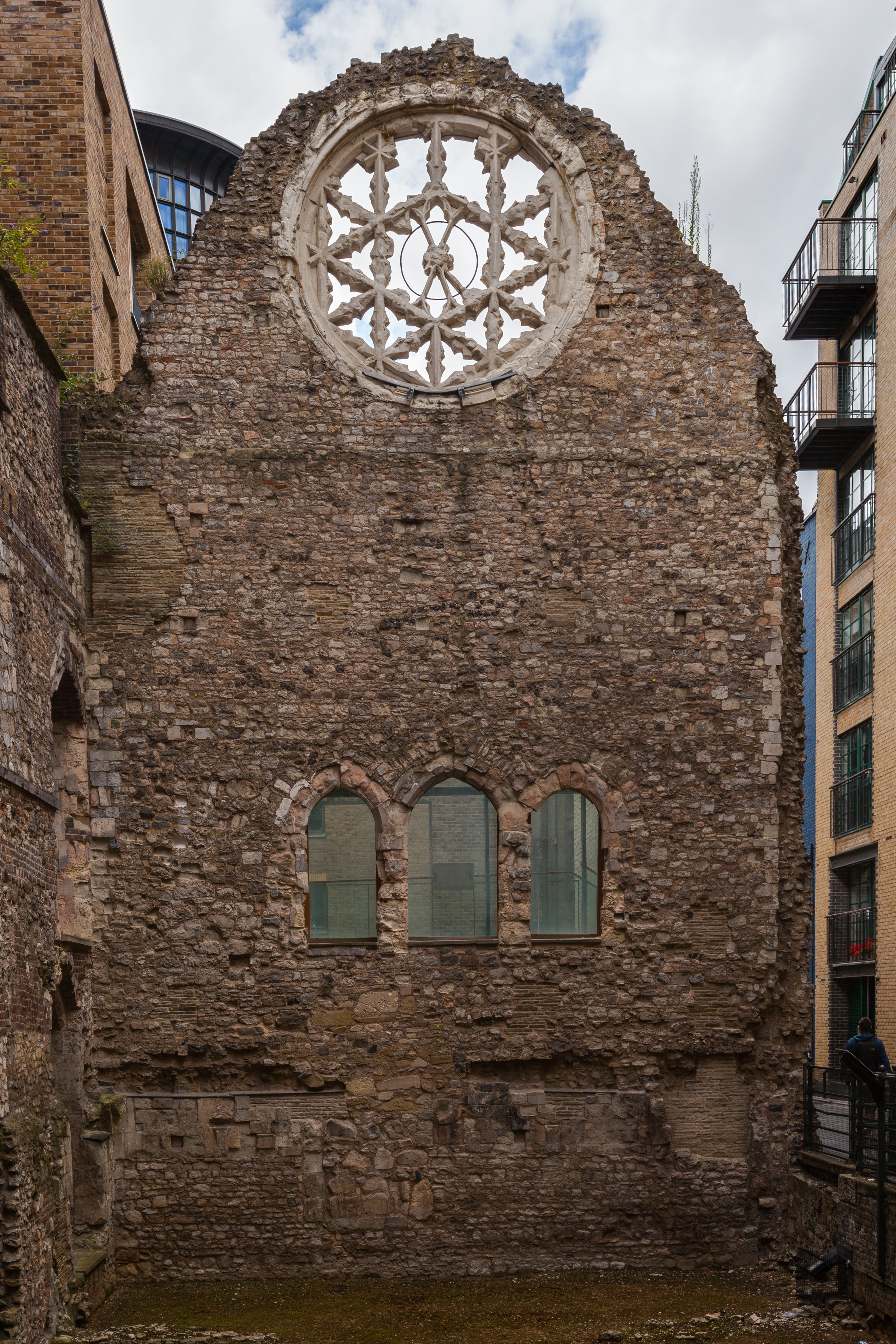 Winchester Palace, London, England